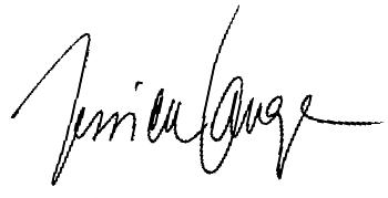 Jessica Lange's signature